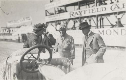 Bob Burman, left, leans on a #31 Benz race car. Caleb Bragg, winner of the 1912 American Grand Prize, on a road course in Wauwatosa, Wisconsin, faces camera. The other two men are unidentified. An observation area for viewing the racing is in the background.